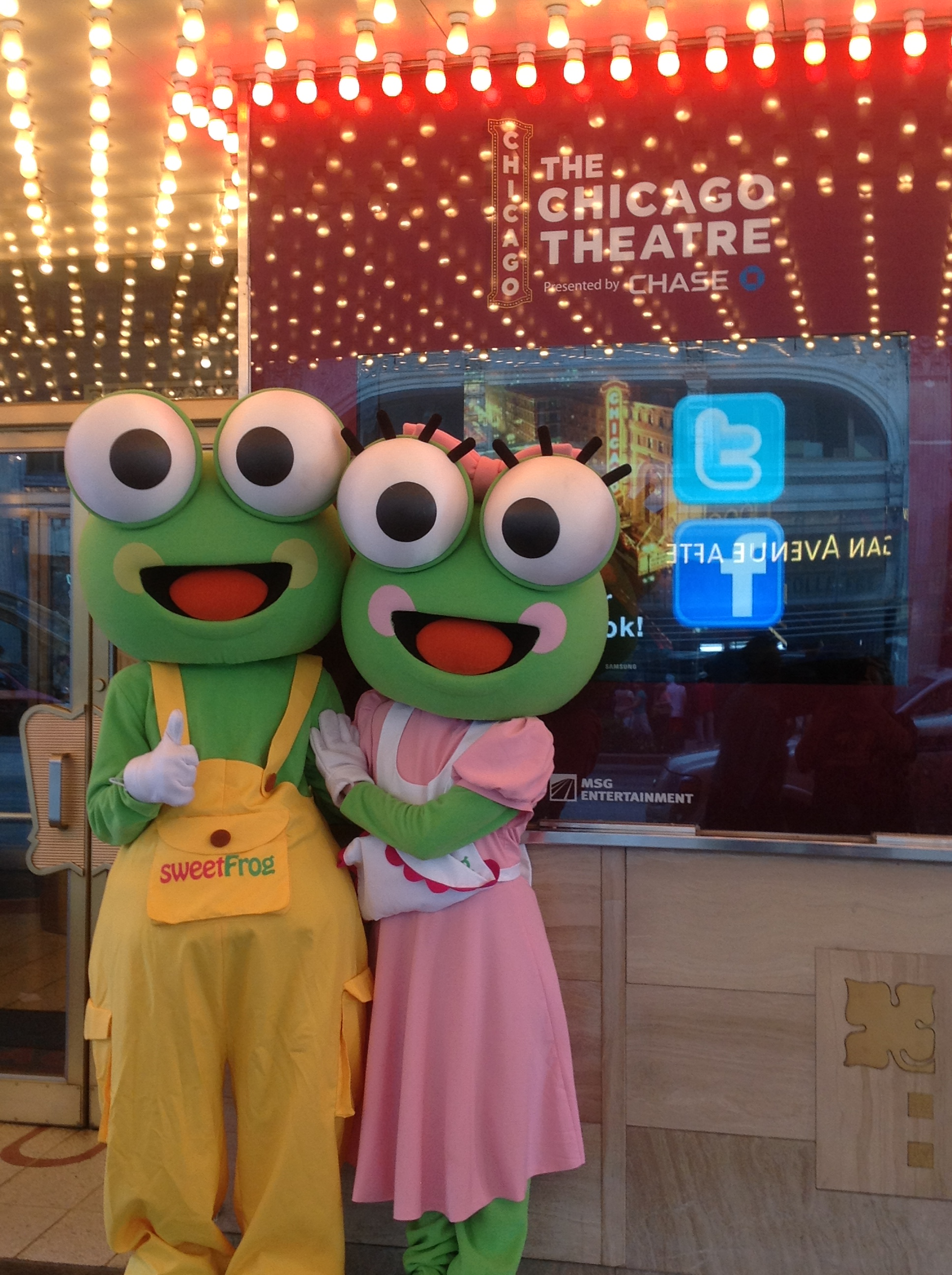 This file is a photo of Sweet Frog - Premium Frozen Yogurt's two mascots named "Scoop" (male) and "Cookie" (female) in front of the Chicago Theatre in Chicago, IL promoting the first Sweet Frog - Premium Frozen Yogurt Chicagoland store, which will open in Frankfort, IL. Other information None